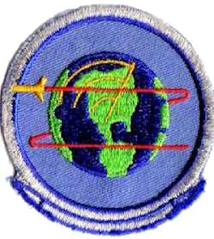 Emblem of the 725th Radar Squadron